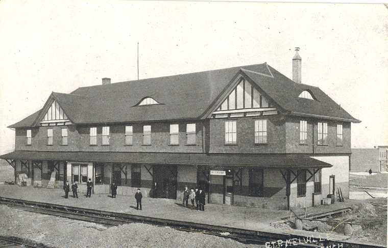 Monotone postcard showing the Grand Trunk Pacific railway station at Melville, Saskatchewan. Crazing visible on back of postcard. Published between 1900-1909.